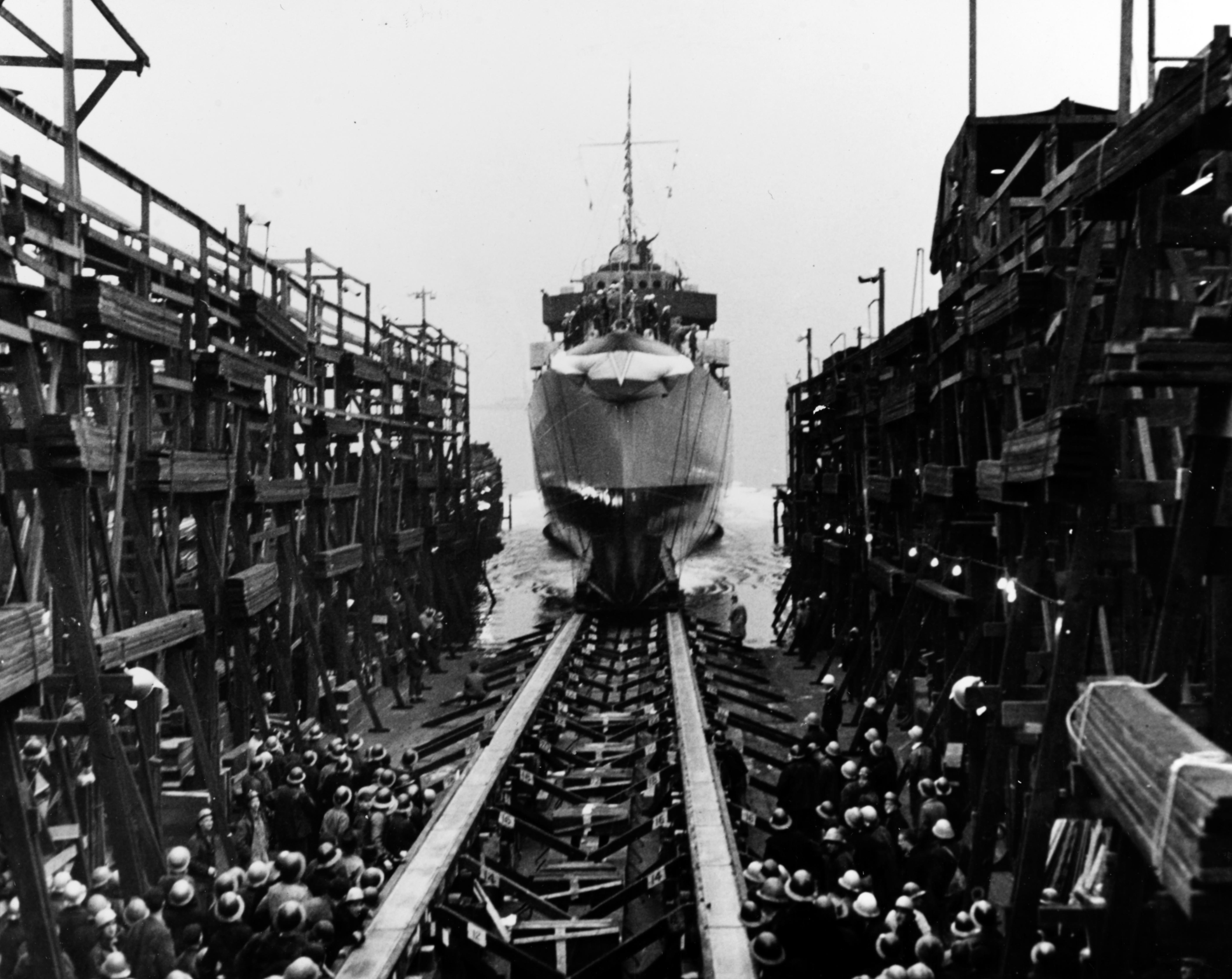 The U.S. Navy destroyer USS Johnston (DD-557) sliding down the building ways at the Seattle-Tacoma Shipbuilding Corporation Shipyard, Tacoma, Washington (USA), on 25 March 1943.